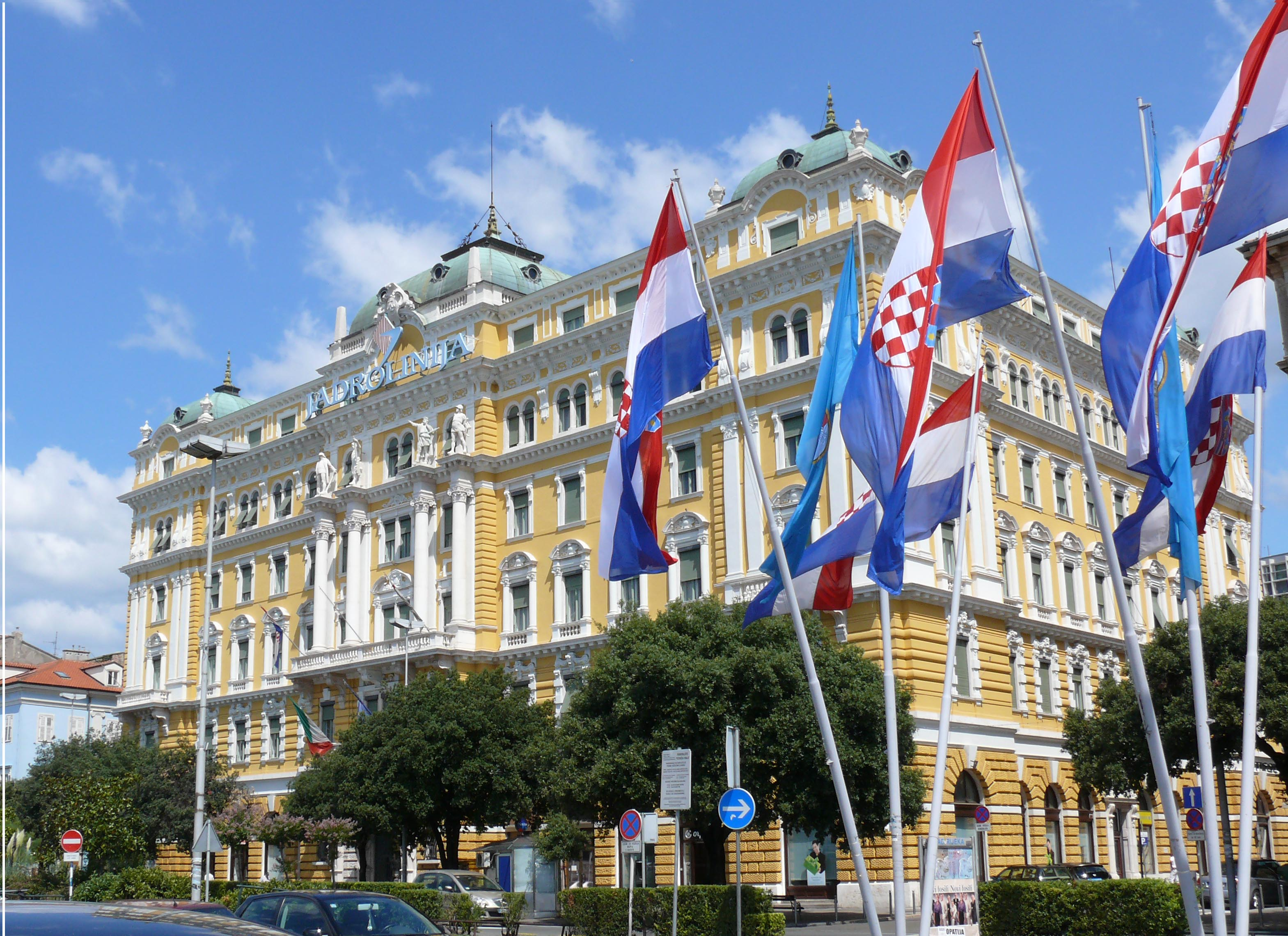 Rijeka harbour, Croatia